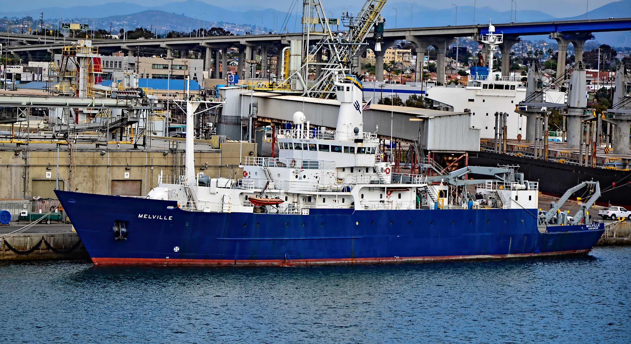 R/V Melville (1967) – originally built as the USNS Melville (T-AGOR-14) -- is a research vessel operated by Scripps Institution of Oceanography for oceanographic research. The R/V Melville is the oldest active vessel in the academic research fleet, collectively known as the University-National Oceanographic Laboratory System. Wikipedia Naval Base San Diego USS Essex (LHD-2) Family Reunion 2016 Photo: TDelCoro March 4, 2016